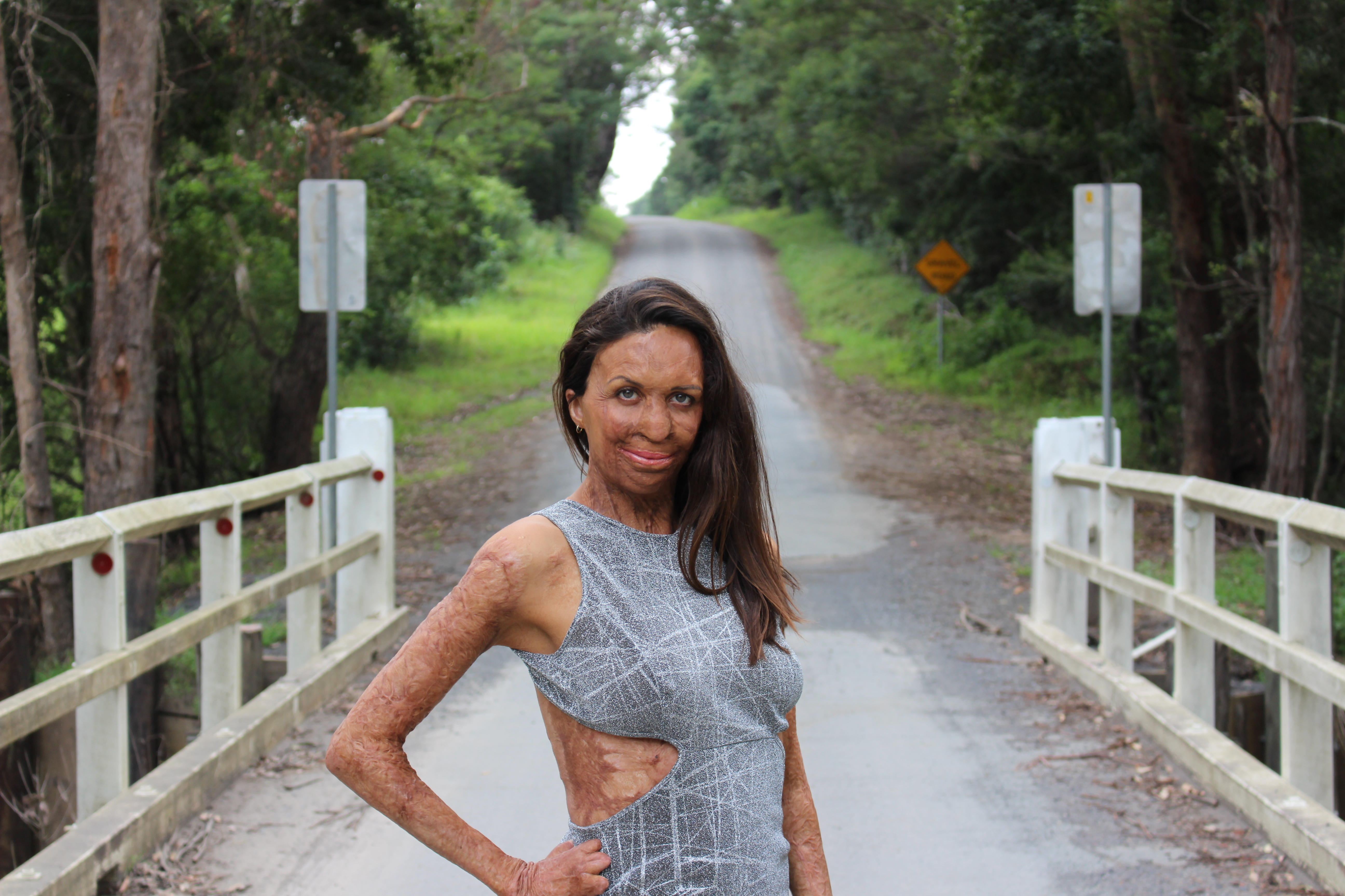 Turia Pitt in her hometown Mollymook, Australia